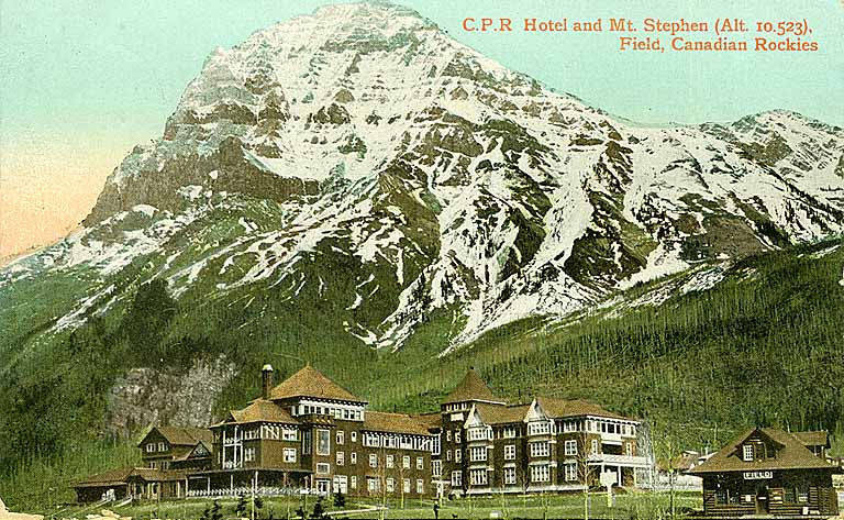 Canadian Pacific Railroad Hotel (Mount Stephen House) and Mount Stephen, in Field, British Columbia, Canada.